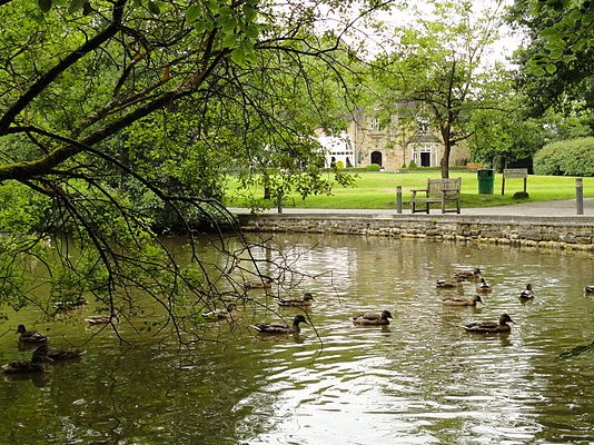 Bryngarw Country Park, Lake & ducks